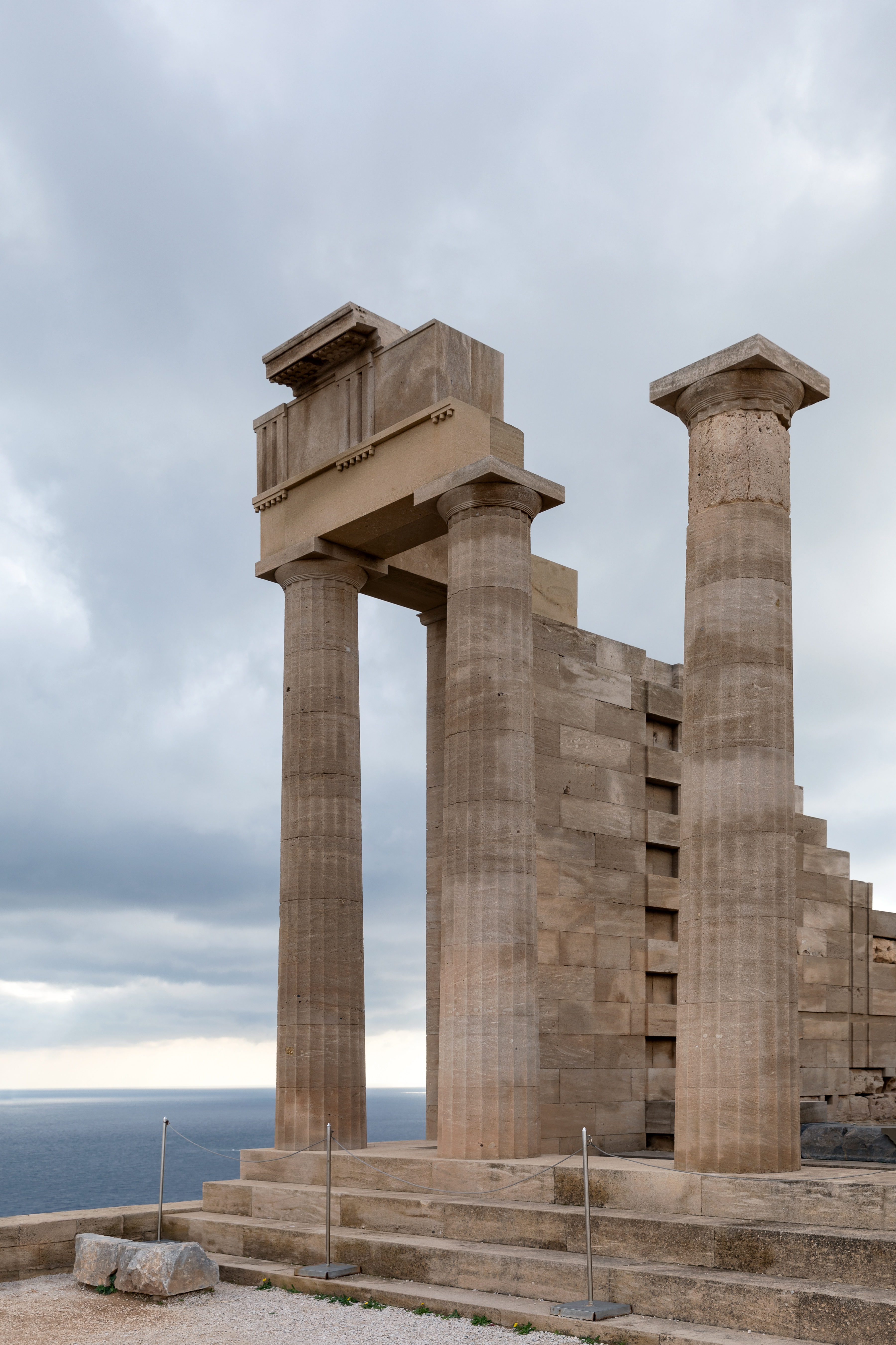 Acropolis of Lindos (Lindos, Rhodes, Greece).